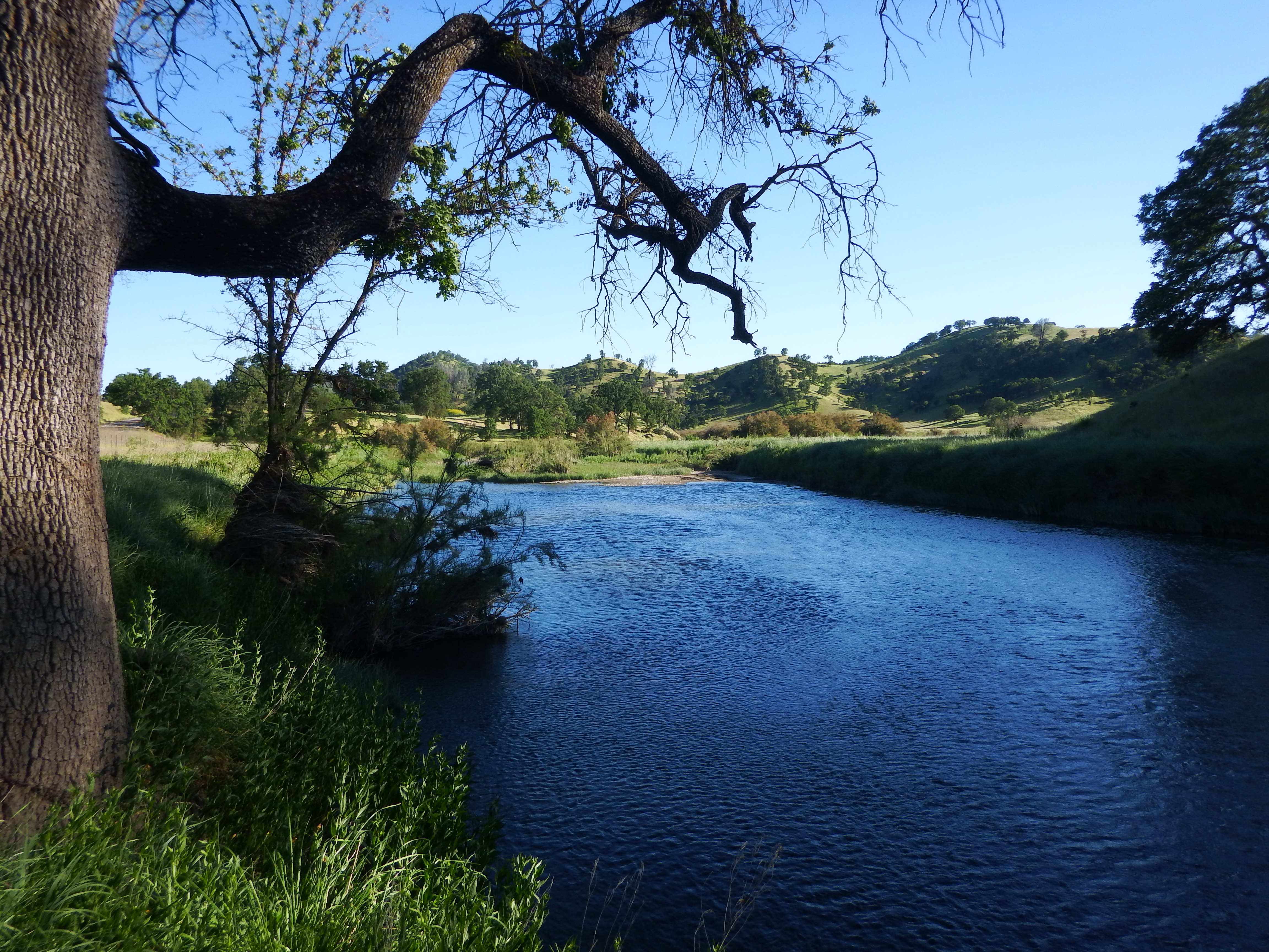 Bear Creek in Colusa County as it flows through the Bureau of Land Managment's Cache Creek Natural Area